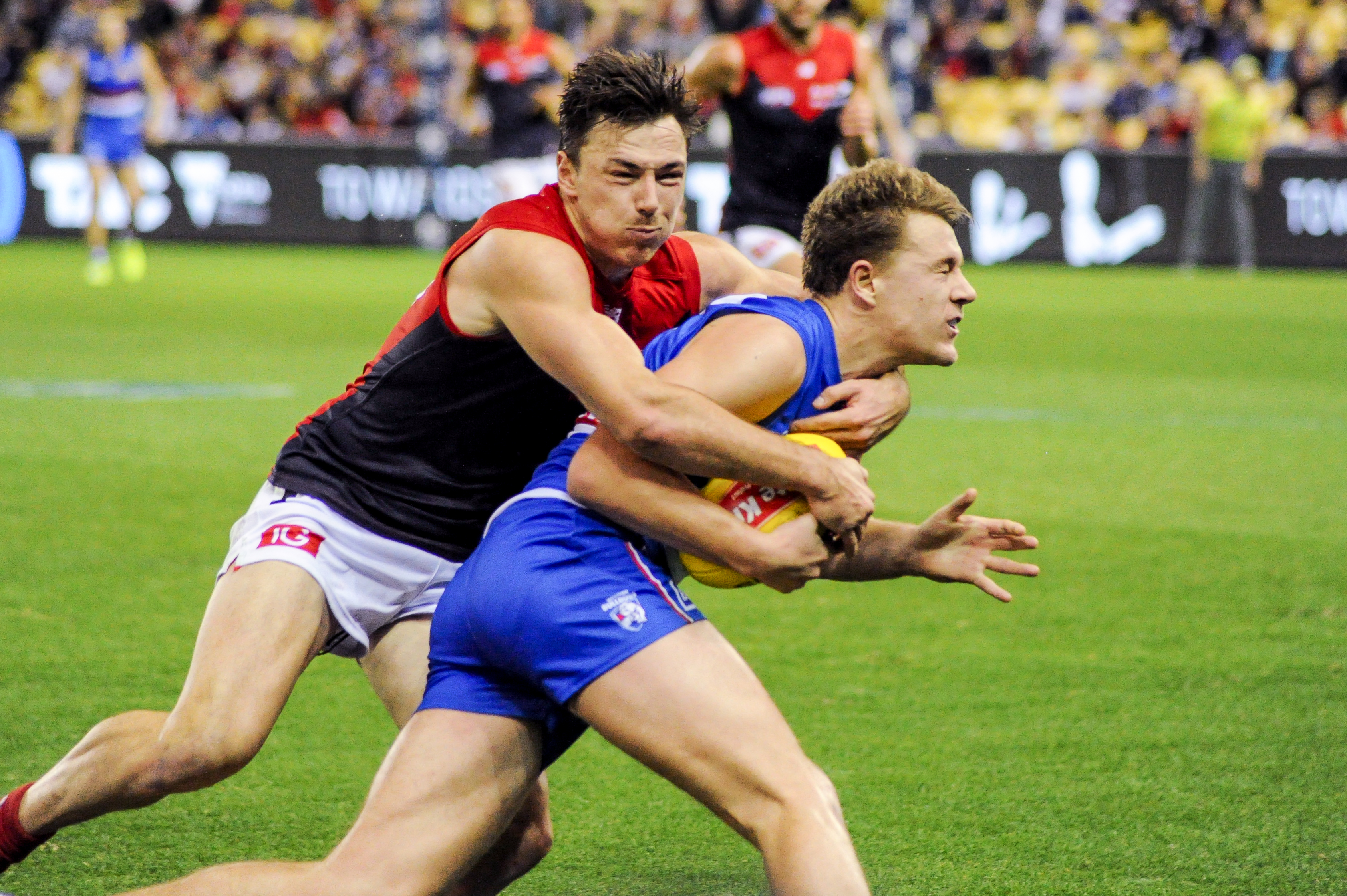 Michael Hibberd tackling Jack Macrae during the AFL round thirteen match between the Western Bulldogs and Melbourne on 18 June 2017 at Etihad Stadium in Melbourne, Victoria.